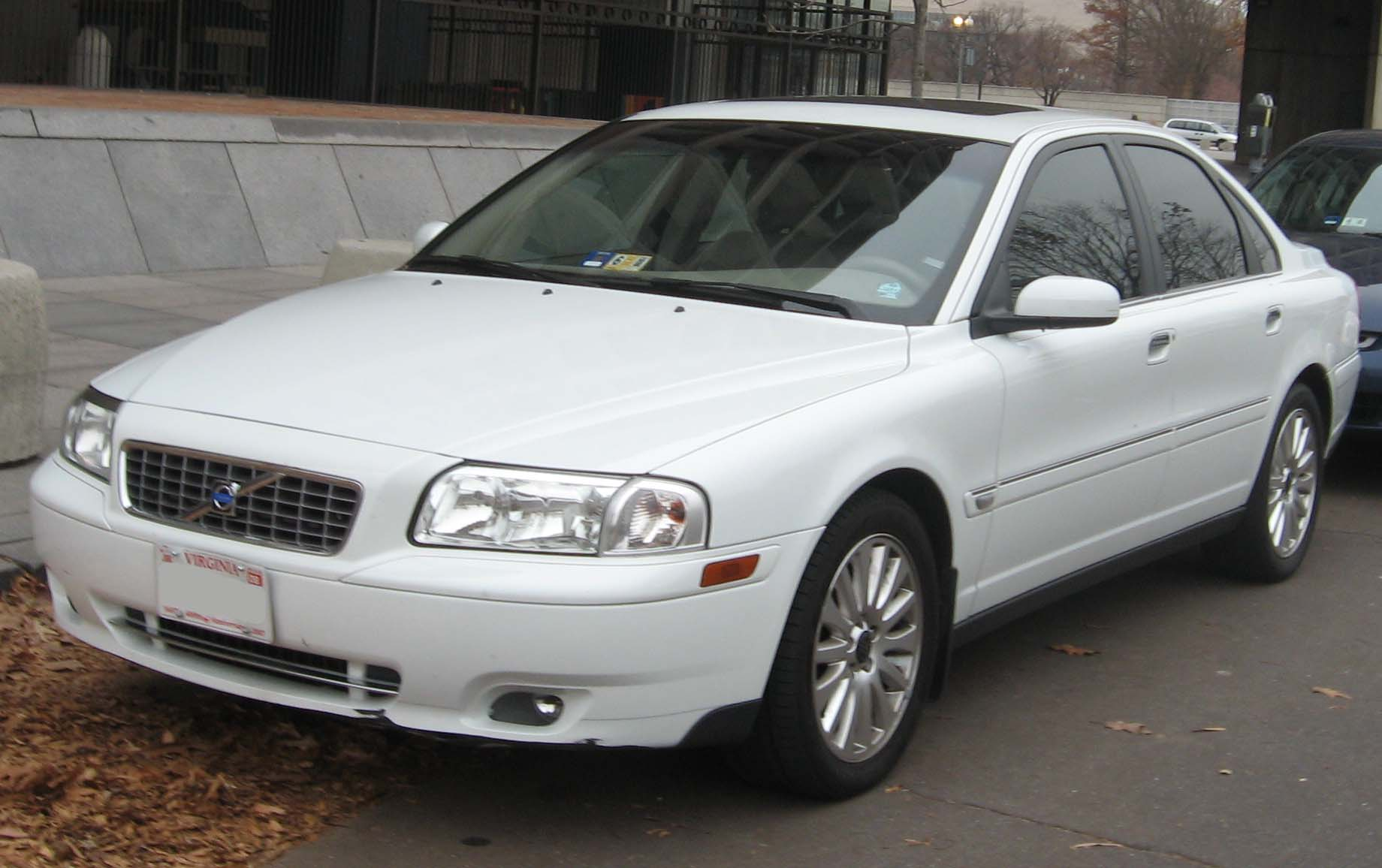 2004-2006 Volvo S80 photographed in Washington, D.C., USA.